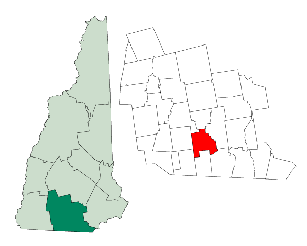 Map of a municipality in Hillsborough County, New Hampshire